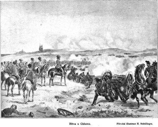 Battle outside Chlum (epizode of Battle of Königgrätz) during Austro-Prussian War. An illustration to book Válka z roku 1866 v Čechách, její vznik, děje a následky (1866 War in Bohemia - its origins, events and consequences) by Servác Heller (1845 - 1922)